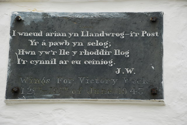 Englyn - Poem. This plaque is on the wall of 608314 and, in the brief form of an englyn, extols the virtue of Post Office savings. I suspect that the original is a lot older than the added promotion of Wings for Victory Week 1943. The Welsh reads To make money in Llandwrog everybody goes eagerly to the Post Office; that's where the thrifty get interest on their penny.